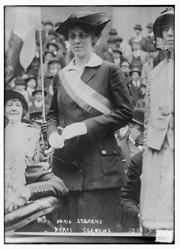 Bain News Service,, publisher. Doris Stevens [between ca. 1915 and ca. 1920] 1 negative : glass ; 5 x 7 in. or smaller. Notes: Title from unverified data provided by the Bain News Service on the negatives or caption cards. Forms part of: George Grantham Bain Collection (Library of Congress). Format: Glass negatives. Repository: Library of Congress, Prints and Photographs Division, Washington, D.C. 20540 USA, General information about the Bain Collection is available at Higher resolution image is available (Persistent URL): Call Number: LC-B2- 3933-3